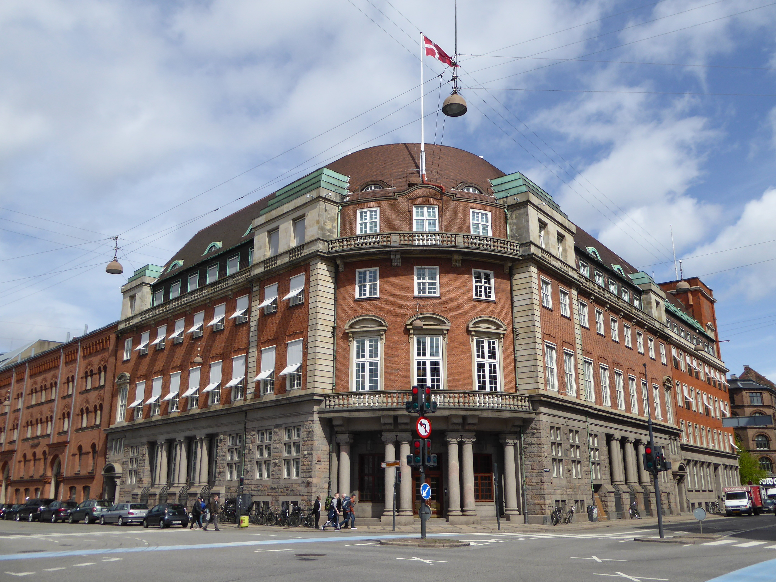 The new head office of Forsvarsministeriet (the Ministry of Defense) at the corner of Holmens Kanal and Holbergsgade in Indre By in Copenhagen. The building was former the head office of the Danish insurance company Hafnia.